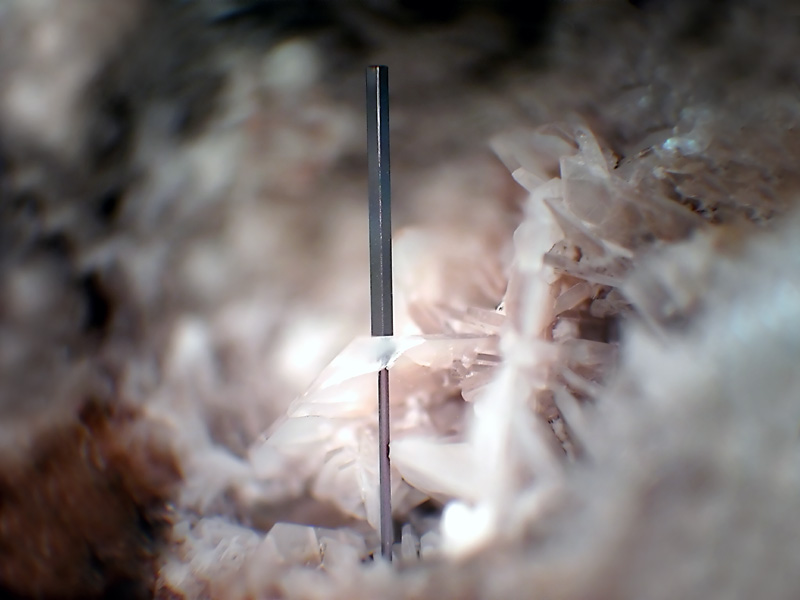 Pseudobrookite perforates a Sanidine tabular, image width: 1.5 mm - Locality: Wannenköpfe, Ochtendung, Eifel region, Germany